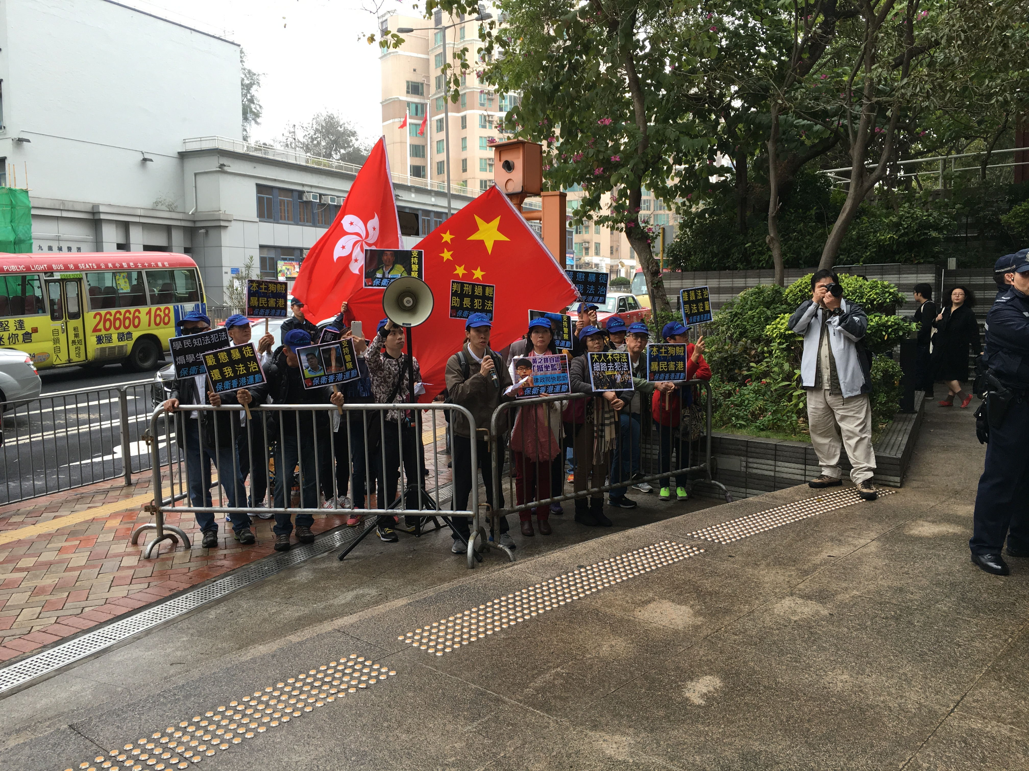 Defend Hong Kong Campaign at Kowloon City Magistrates' Court at 10:59 on February 12, 2016